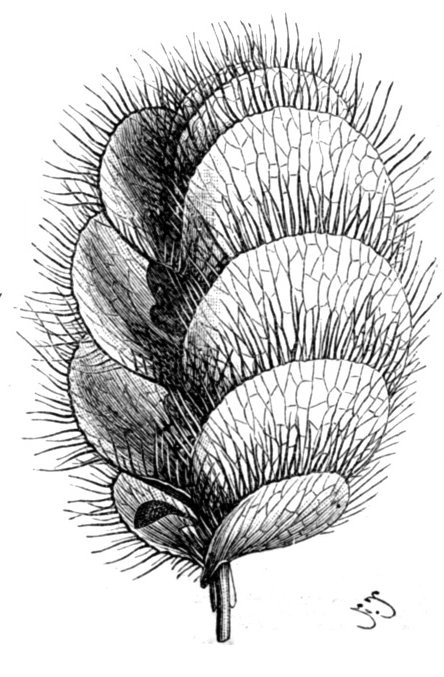 Illustration from book